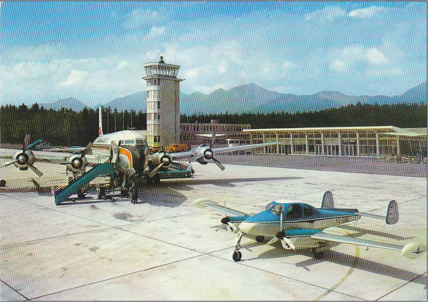 Postcard of Brnik.